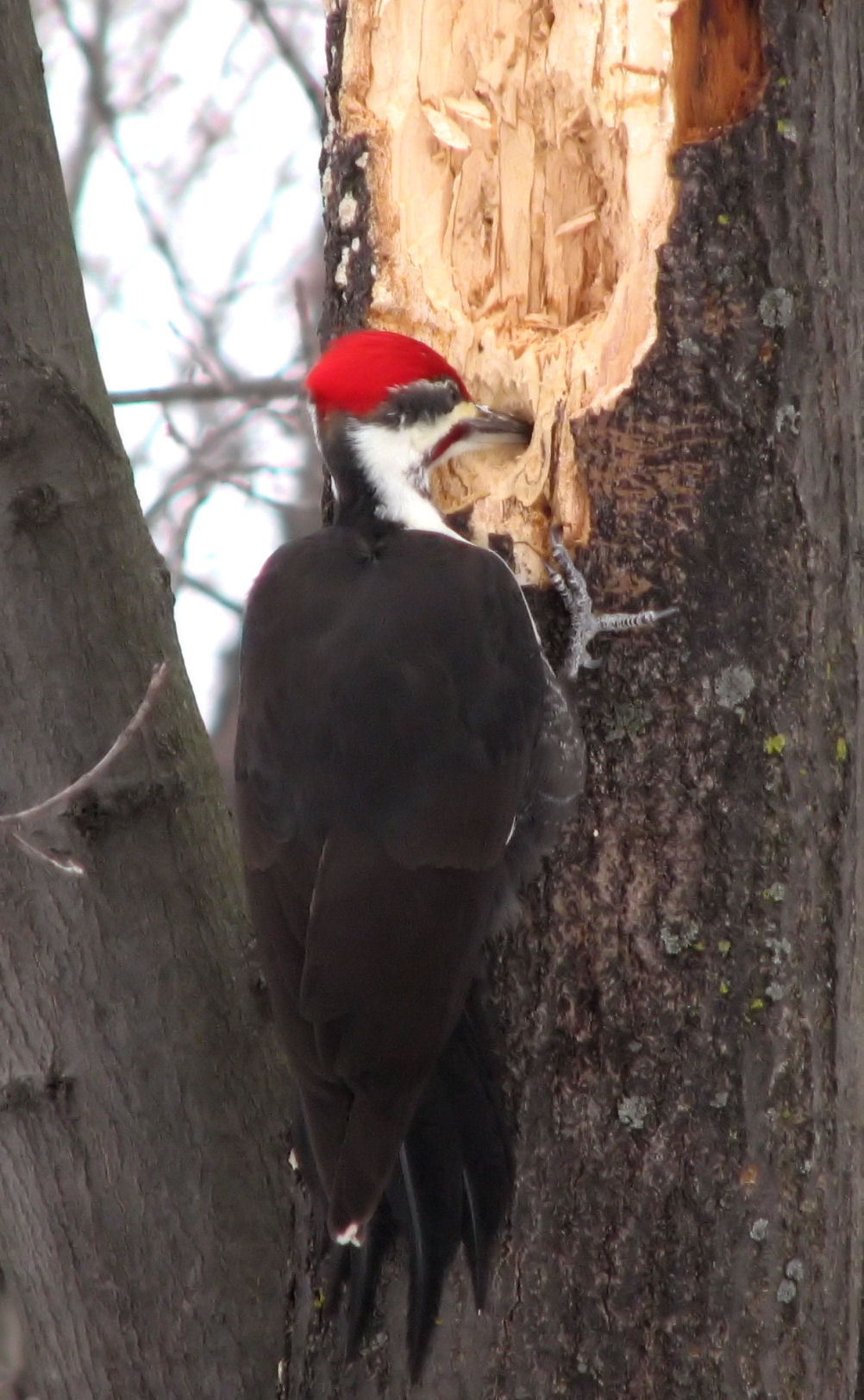 Pileated Woodpecker (Dryocopus pileatus), male, Ottawa, Ontario, Canada